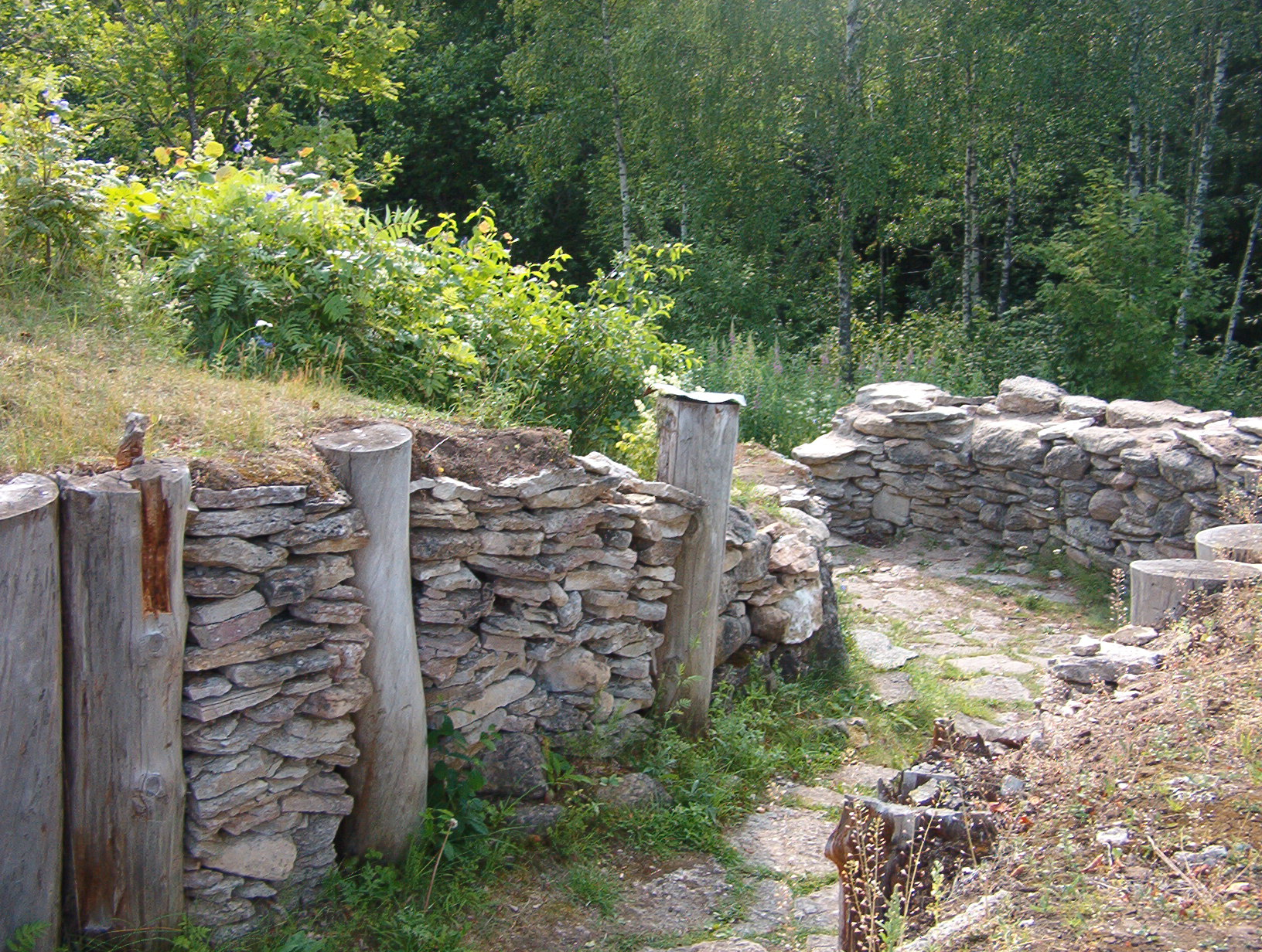 Varbola Stronghold